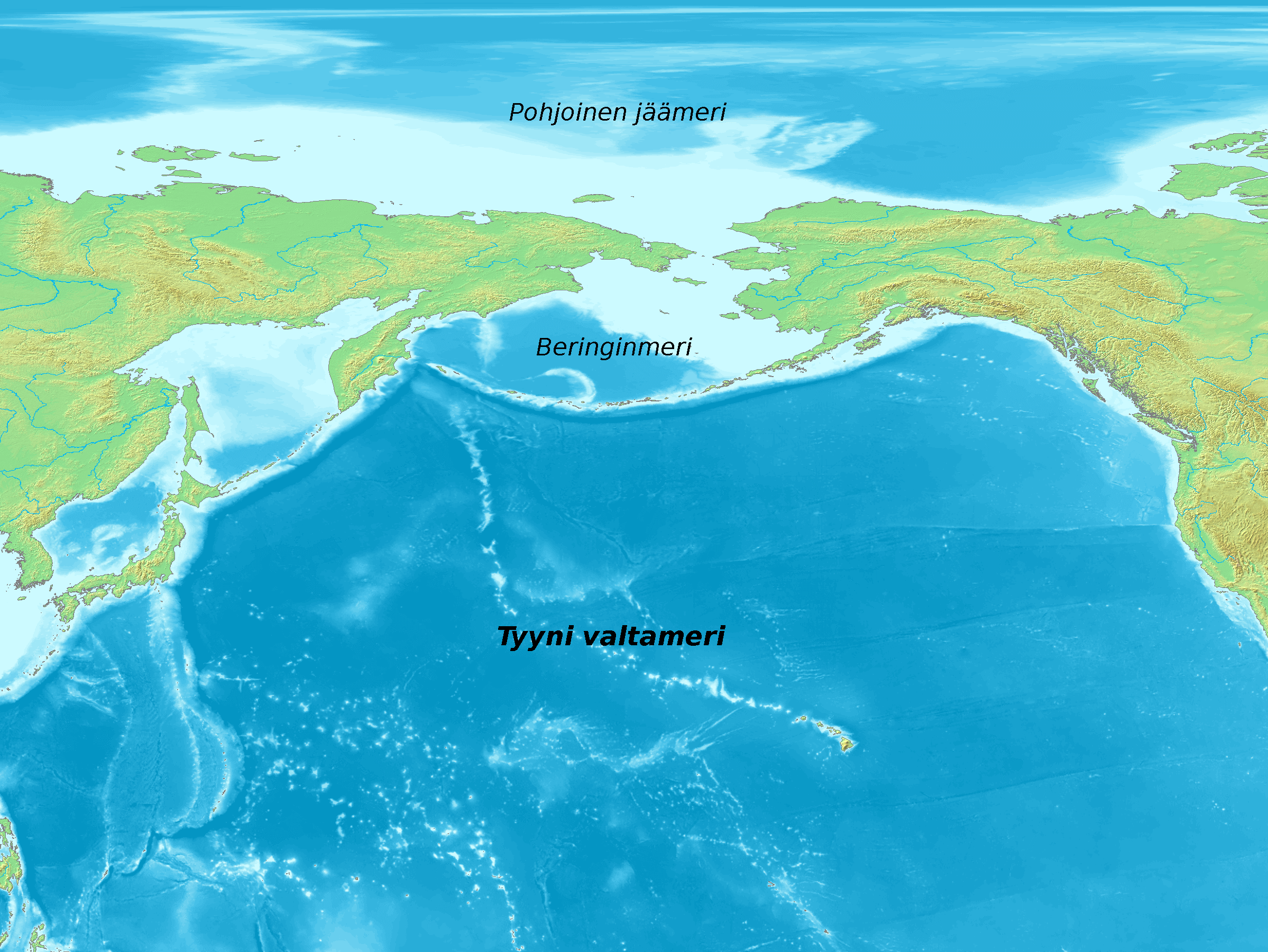 Locations of The Arctic Ocean, The Bering Sea and The Pacific Ocean (in Finnish).